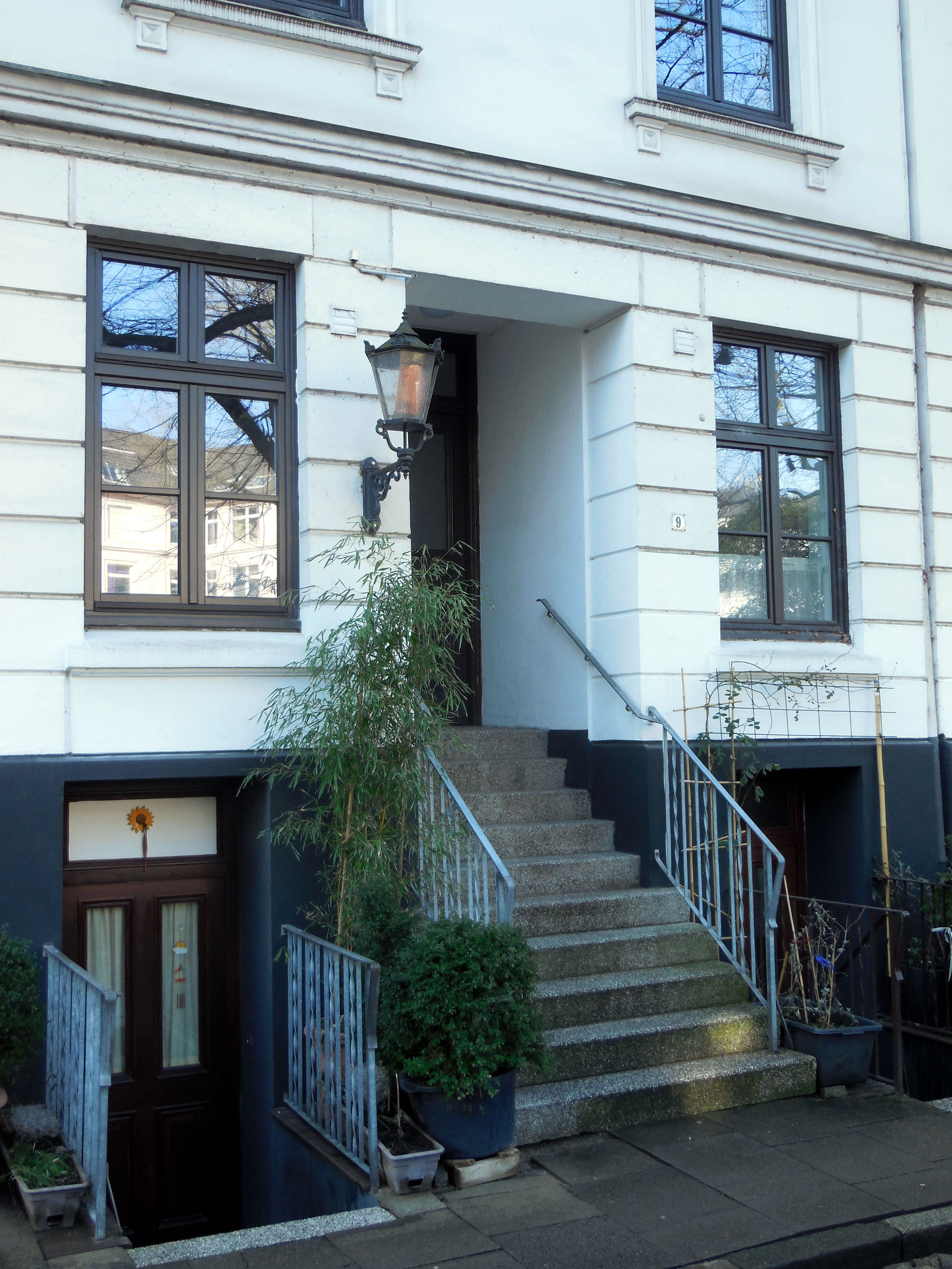 Augustenpassage in Hamburg